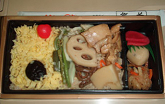 Shōyu-meshi, an ekiben available at Matsuyama Station.